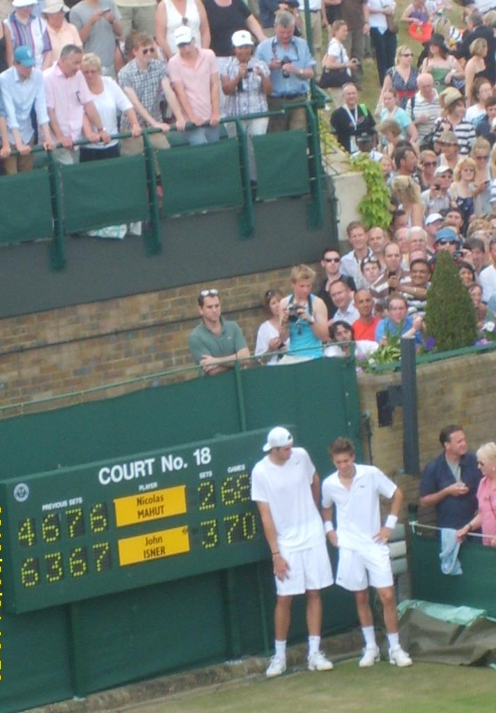 Isner and Mahut next to the scoreboard of their match in Wimbledon 2010.